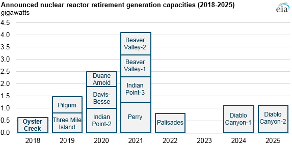 Oyster Creek will be the sixth nuclear power plant to retire in the past five years. After Oyster Creek’s retirement, the United States will have 98 operating nuclear reactors at 59 plants. Twelve of these reactors, with a combined capacity of 11.7 gigawatts, are scheduled to retire within the next seven years.